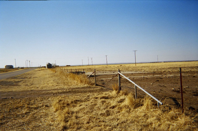 A view looking across the former townsite of Brinkman, Oklahoma along Oklahoma Route 34-B